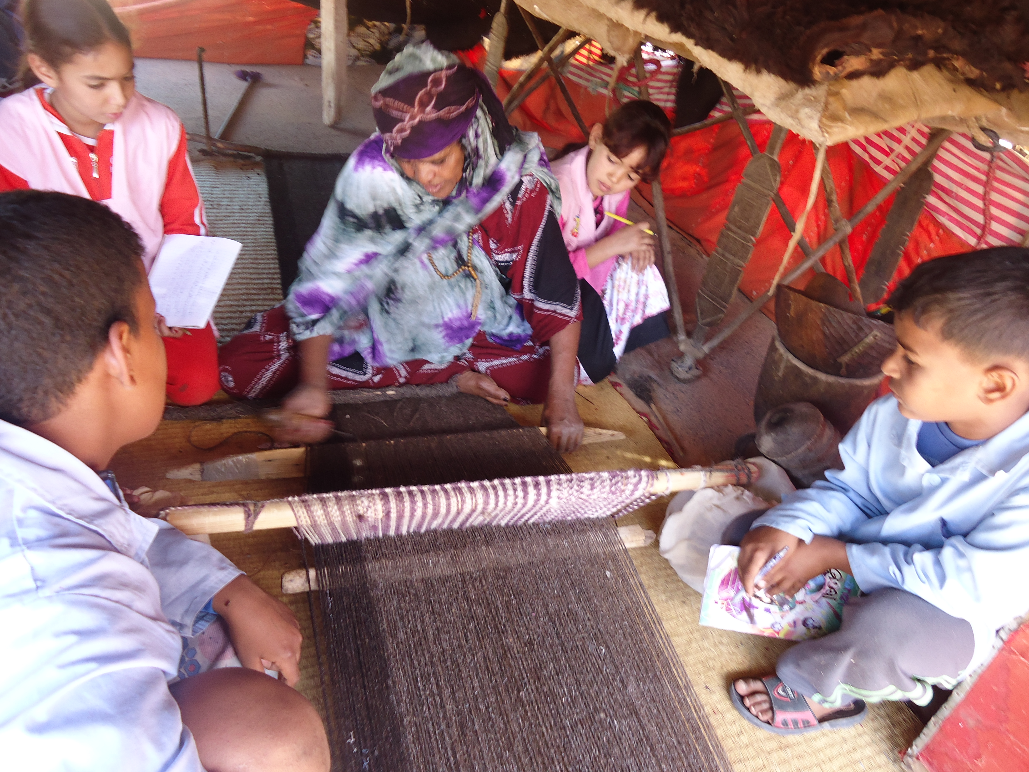 تعليم العاب والصناعة التقليدية This is an image with the theme "Play" from: Algeria